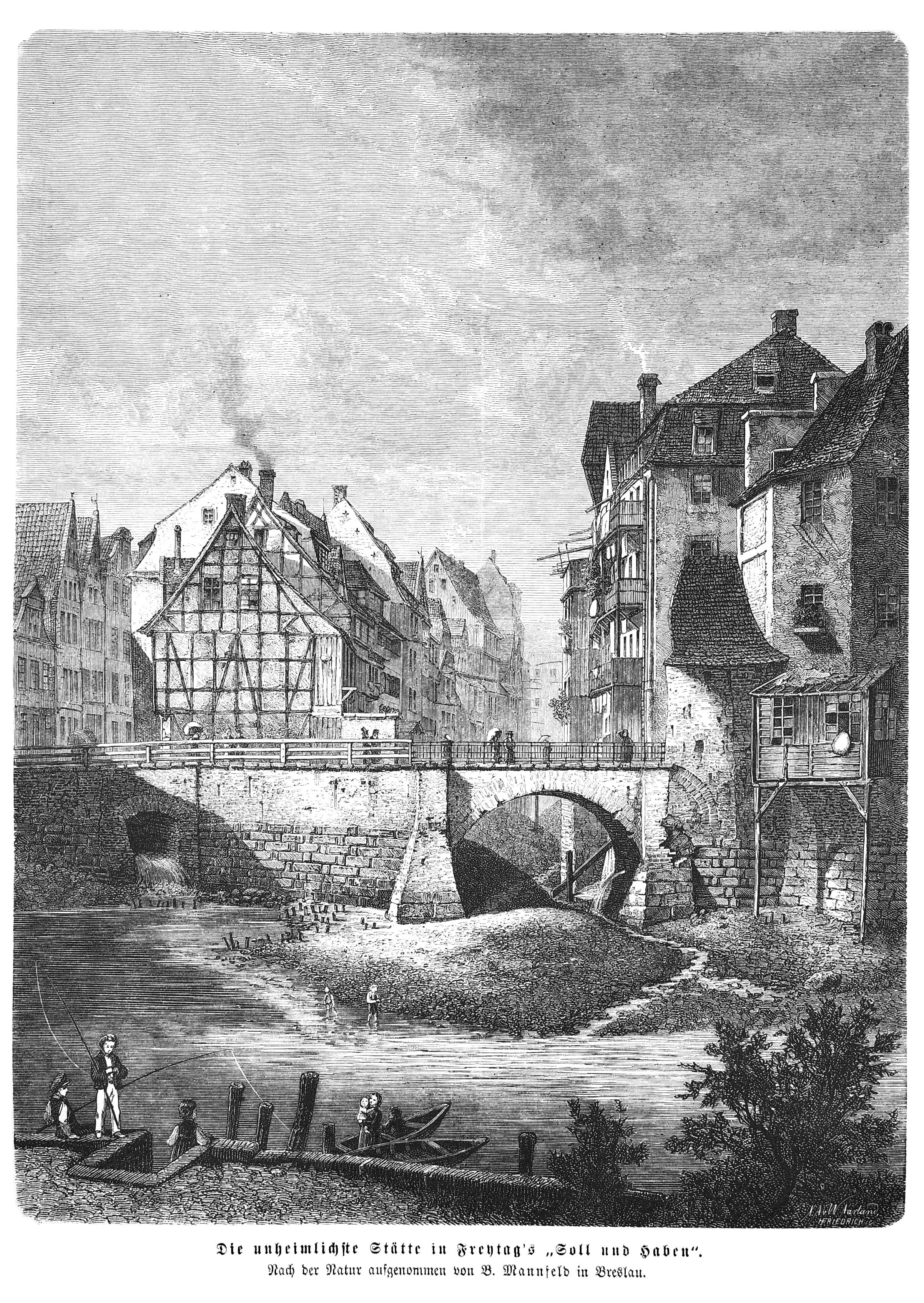 Image from page 289 of book Die Gartenlaube.